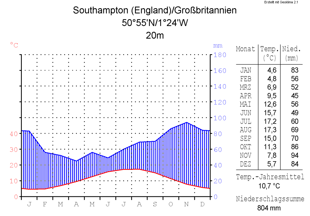 climate chart in the format by Walter and Lieth, metric, °Celsisus and millimeters, made with Geoklima 2.1